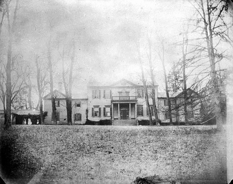 Photo of front elevation of Ravensworth plantation house. HABS VA,30-RAV.V,1-1